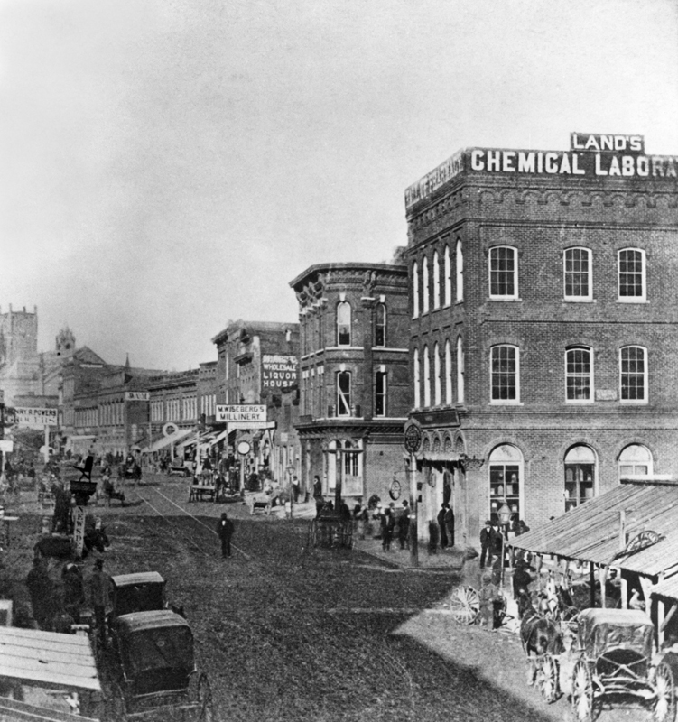 "Activity on Peachtree Street, near Five Points in downtown Atlanta, Georgia. Picture shows the east side of Peachtree Street, from a point just south of Decatur to and including First Methodist Church on Houston Street still in process of construction. In the photo one can see W. J. Land's chemical laboratory, M. Wiseberg's Millinery, and Henry R. Powers Groceries."